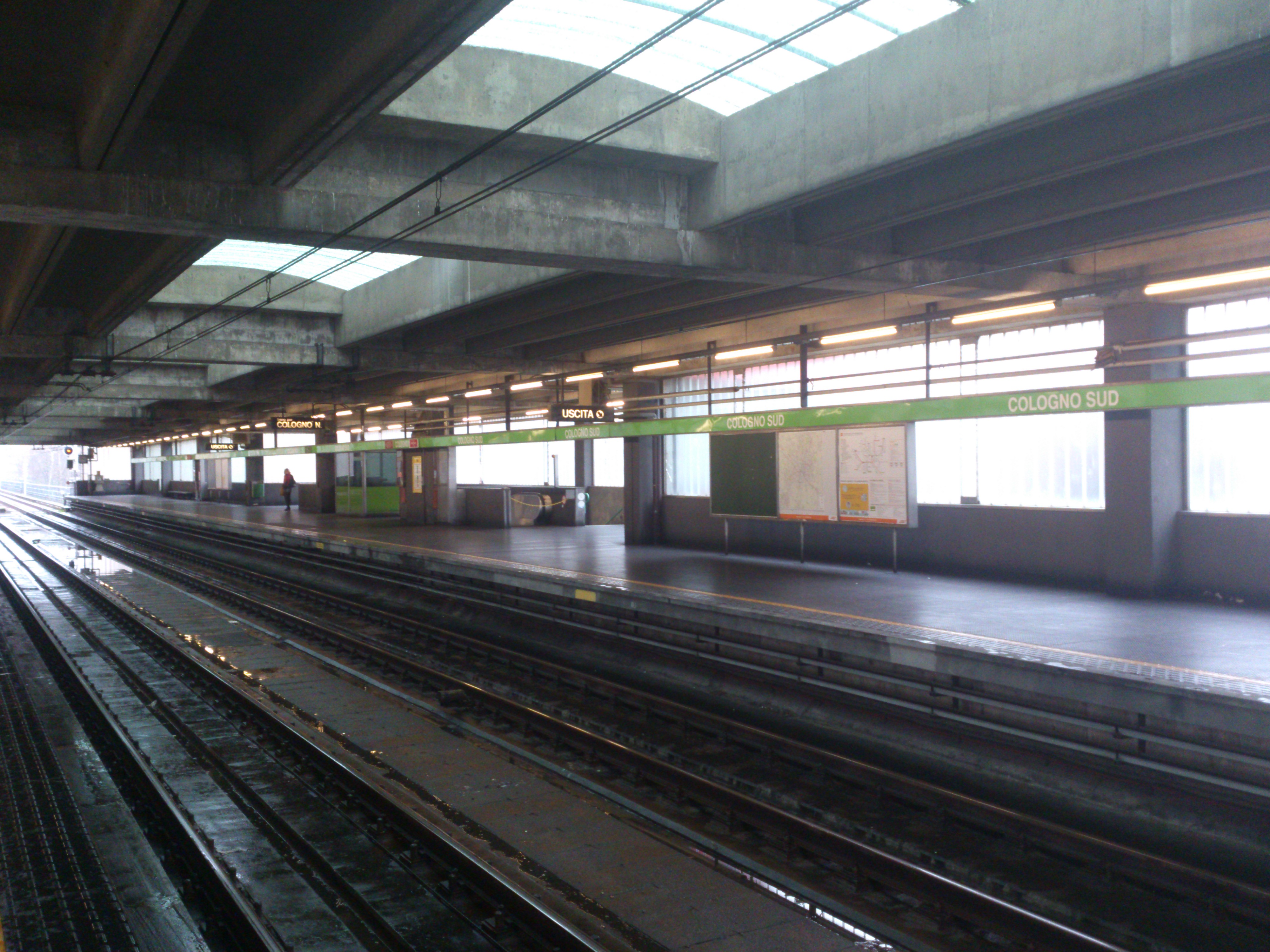 cologno sud underground station - mm2 milano - italy